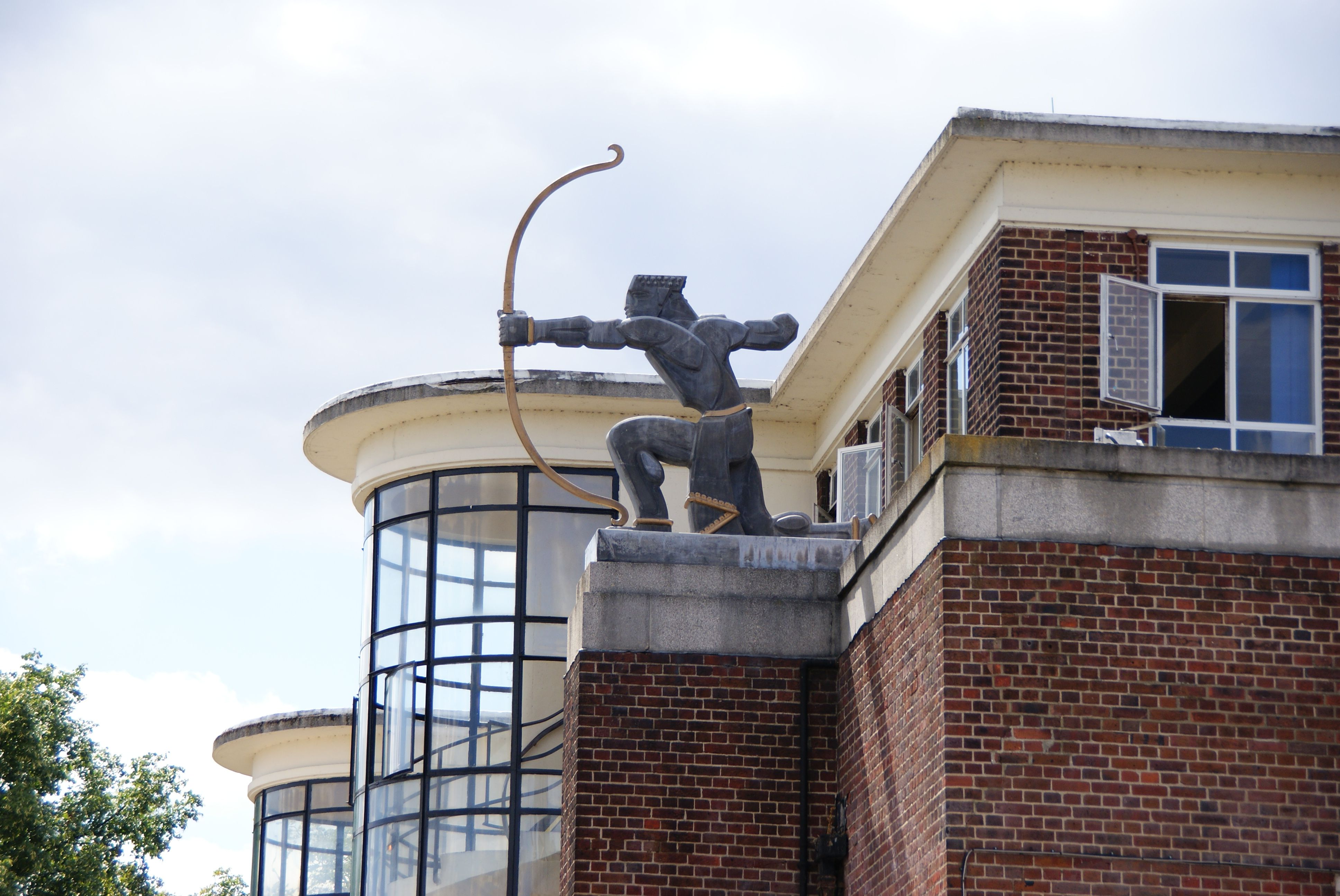 The East Finchley archer, pointing towards the tunnel which ends up at Morden, 17 miles away via Bank